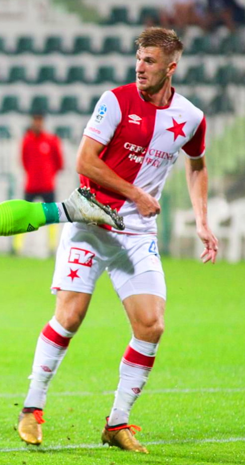 25.01.2018. Объединенные Арабские Эмираты, Дубай, «Мактум ибн Рашид Аль-Мактум». «Газпром»-тренировочные сборы в Дубае: товарищеский матч «Зенит» — «Славия».